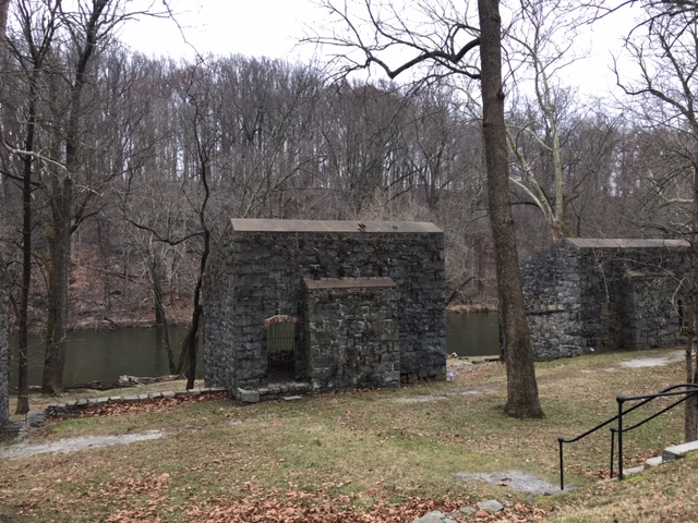 Exterior of powder mills in Hagley Yard along property acquired in 1810s.